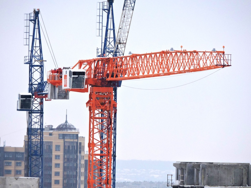 TDK-12.300